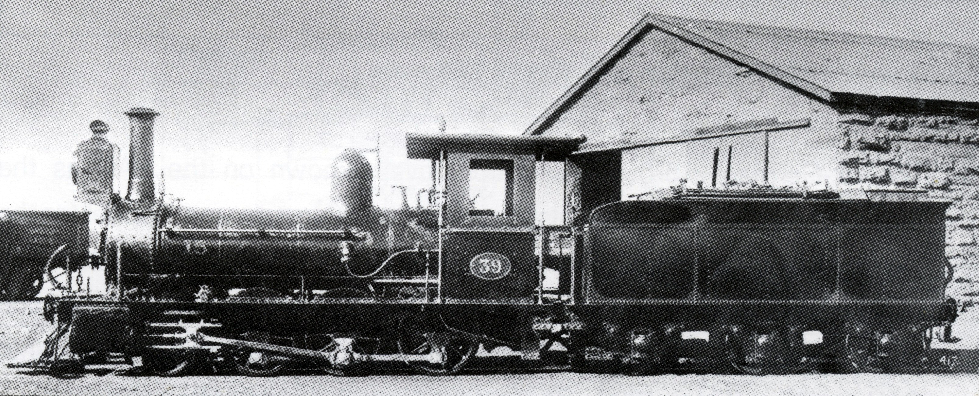 Cape Government Railways 1st Class 2-6-0 of 1876, ex no. W12, then no. 12, then no. 39, bearing no. 15 on the boiler